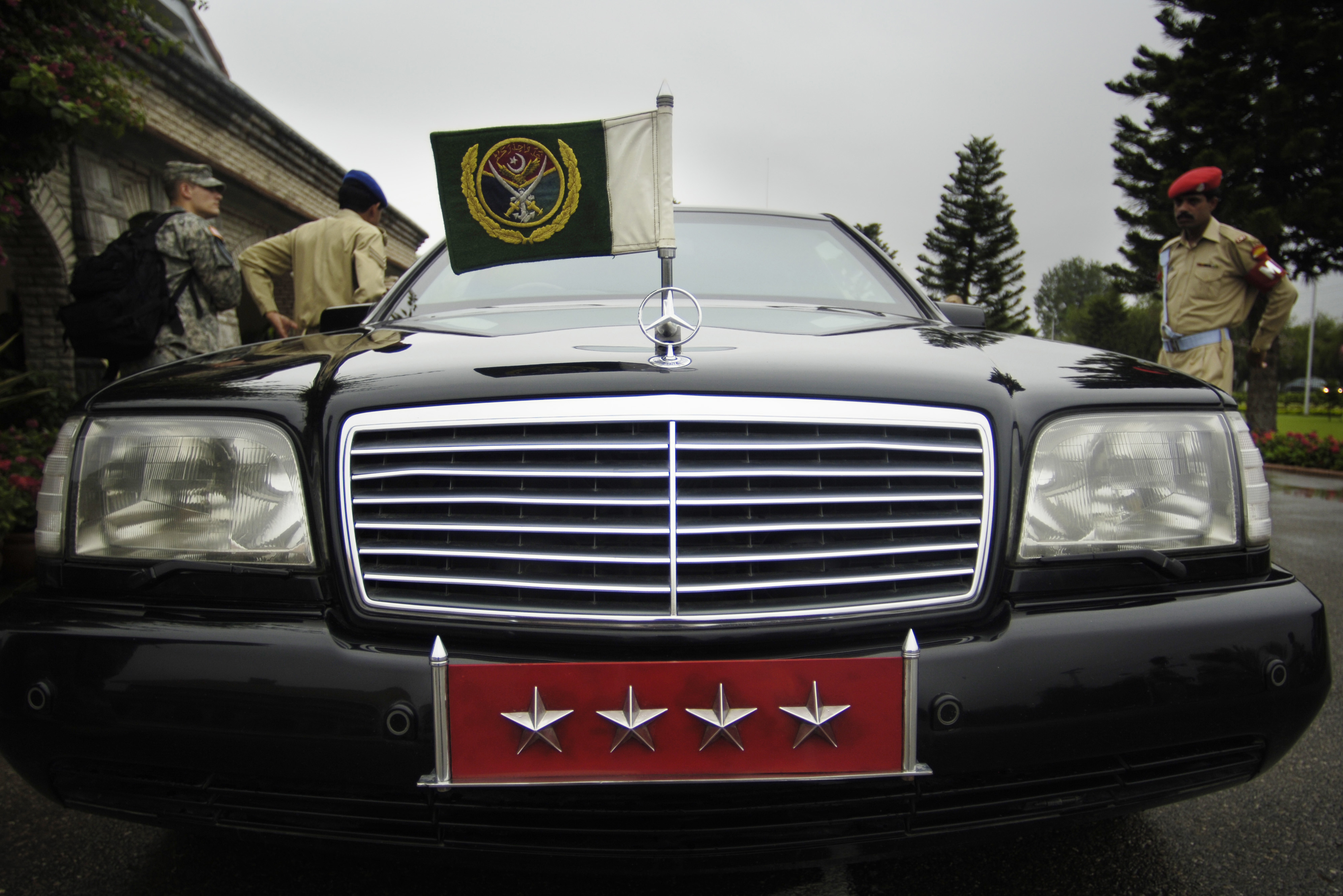 A Mercedes Benz is positioned to bring Chairman of the Joint Chiefs of Staff U.S. Marine Corps Gen. Peter Pace and Pakistani Gen. Eshan Ul Haq to a meeting with the president of Pakistan, Pervez Musharraf in Islamabad, Pakistan, July 28, 2006.